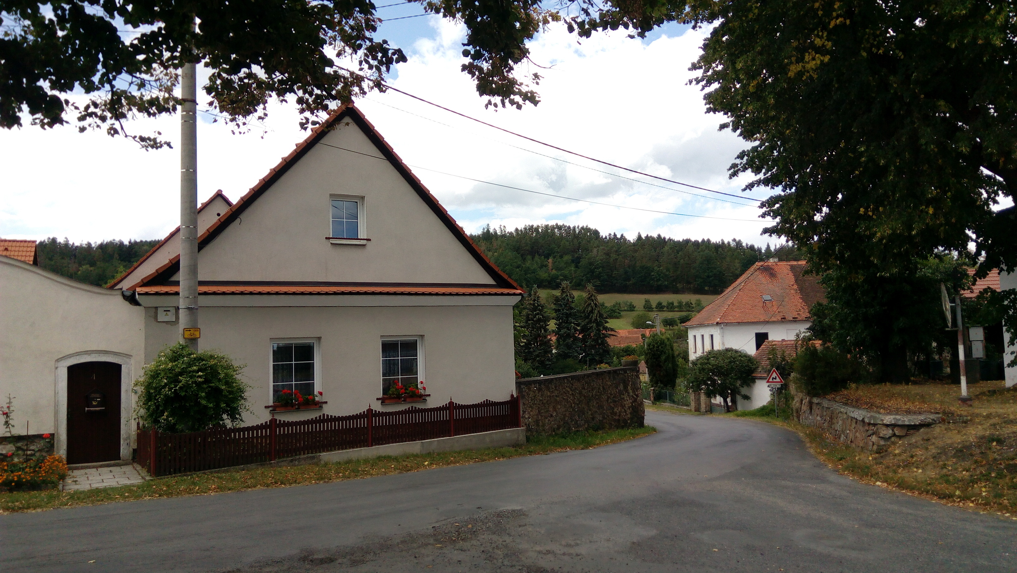 Centre in the village of Boubín, part of the town of Horažďovice, Klatovy District, Plzeň Region, Czechia.